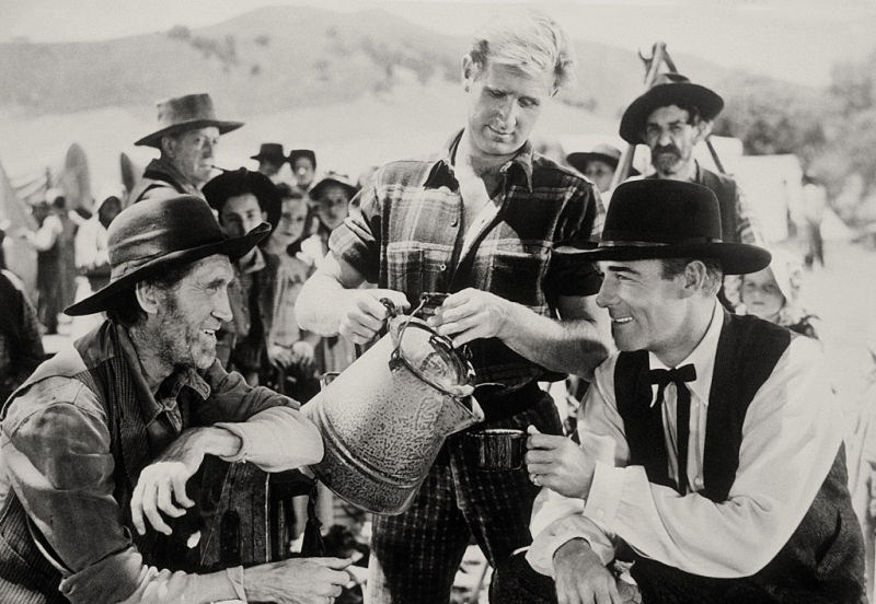 L. to R. : Hank Patterson, Lloyd Bridges & Randolph Scott in Abilene Town - cropped screenshot